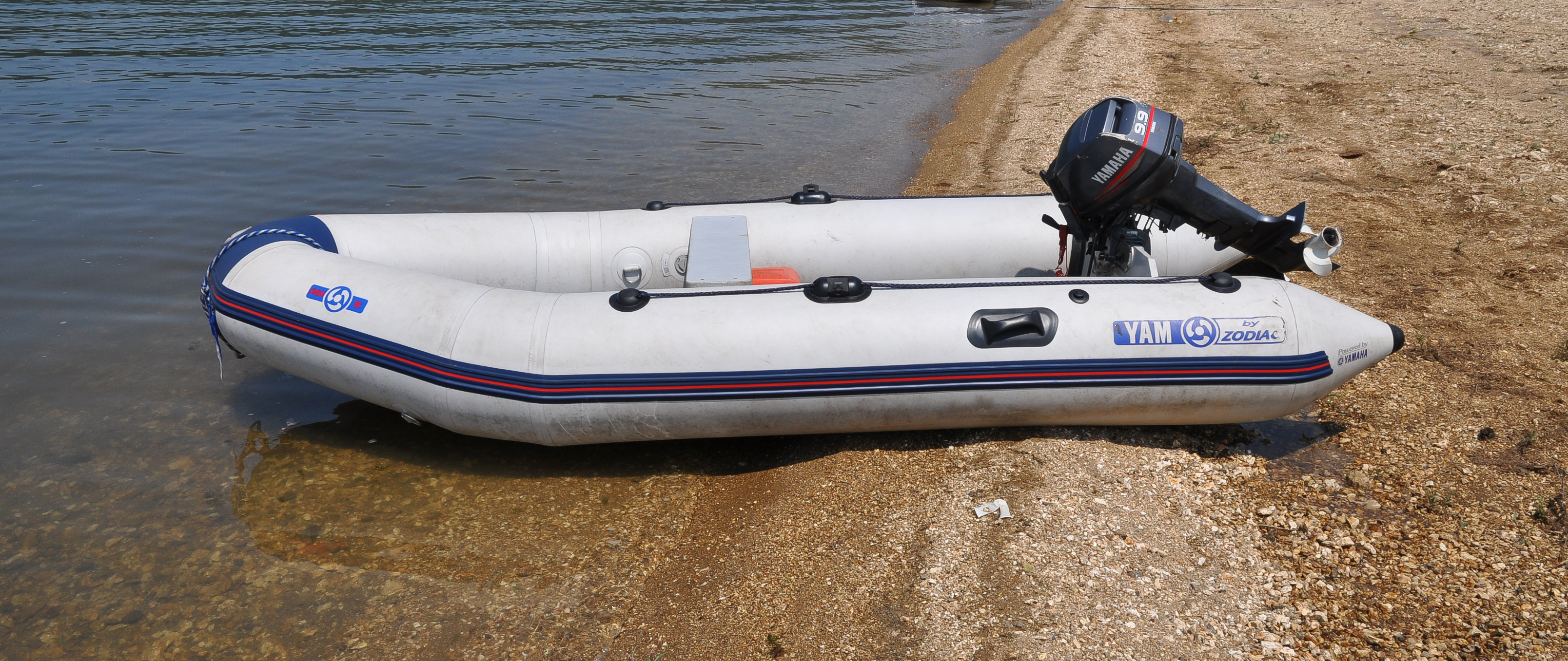 Zodiac Inflatable Boat found at Iskar reservoir, Bulgaria.